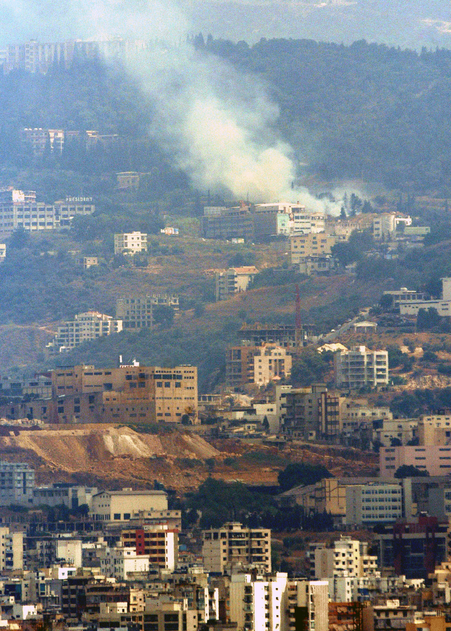 White smoke rising from a strike on a hillside neighborhood in Beirut, Lebanon (LBN), during an Israeli attack in retaliation against Hezbollah guerillas, for a raid into northern Israel and the capturing of two Israeli Soldiers.